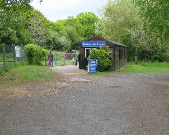 Ruislip Lido Railway: Ruislip Lido Station, since renamed Willow Lawn Station